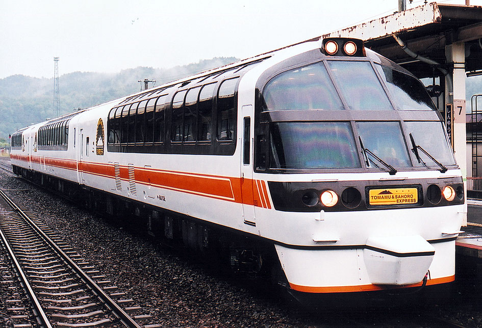 JR Hokkaido KiHa 80 series "Tomamu & Sahoro Express" DMU operating as a 3-car set